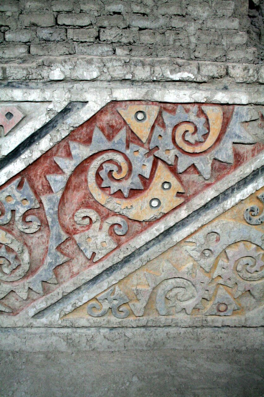 Huaca Cao Viejo fresco detail - Sea life. Moche culture. El Brujo archaeological complex, Peru.